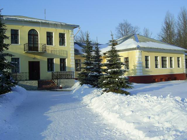 Art School in the town of Belye Berega, Bryansk oblast, Russia